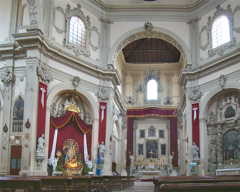 Church of San Giovanni Battista, Lecce, Apulia, Italy.